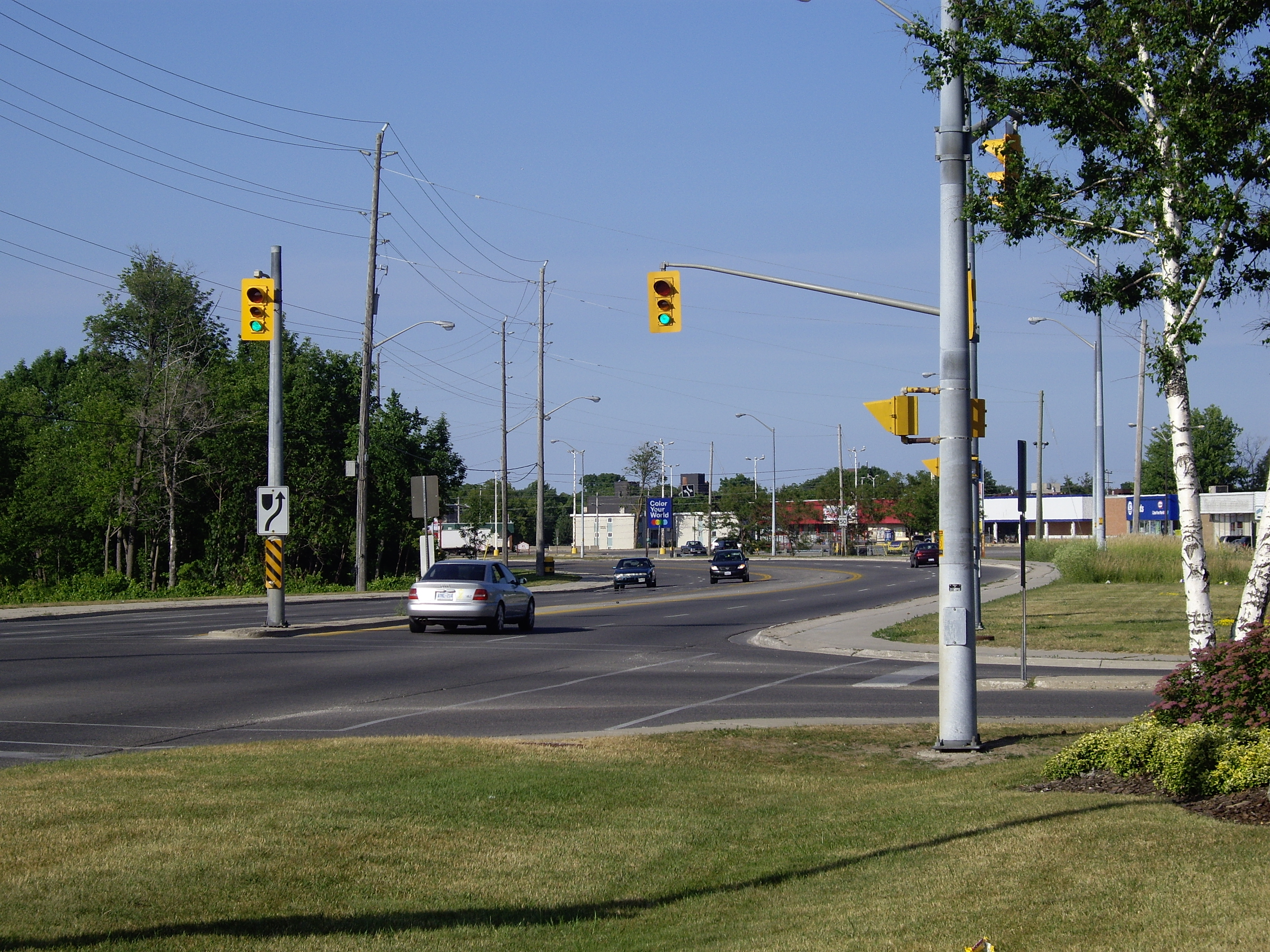 Taken on July 2, 2007, shortly after Highway 6 and Highway 21 begins their concurrency near Owen Sound.